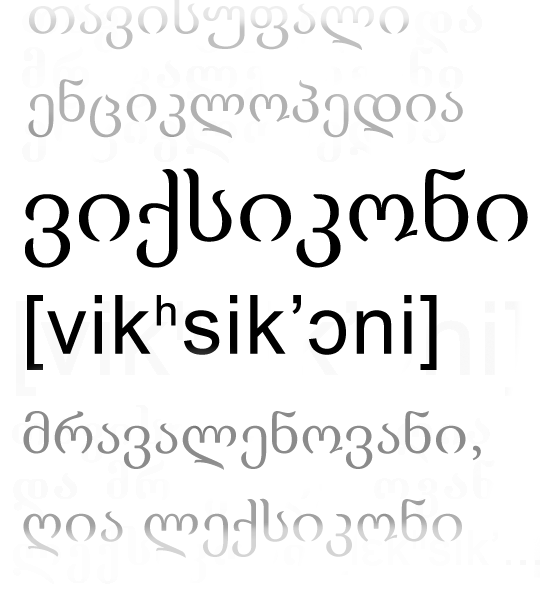 Georgian Wiktionary logo